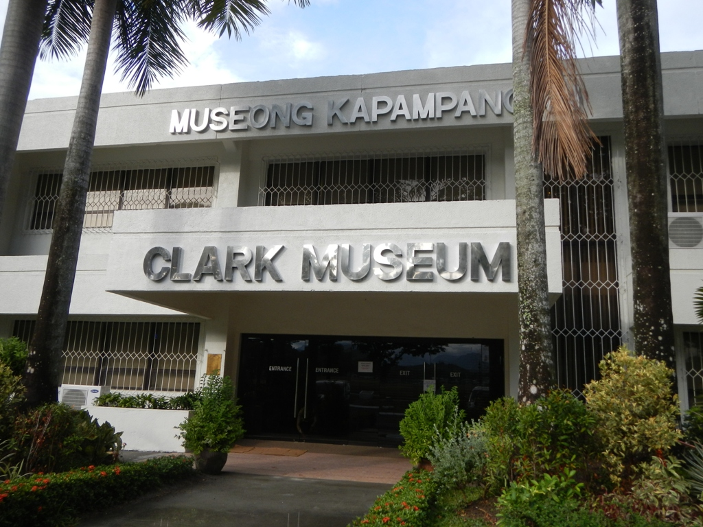 Clark Museum Cinema 4-DMovie theater houses evidences and relics inside the Fort Stotsenburg Park, Gateposts and Relics Clark Air Base and Freeport Zone, Angeles City, Pampanga Fort Stotsenburg is situated at Barangay Sapang Bato Angeles City, Pampanga also known as the "Parade Ground" of Clark Air Base named after Colonel John M. Stotsenburg; the Gateposts of Fort Stotsenburg, in Clark Air Base redeveloped into the Clark Freeport Zone